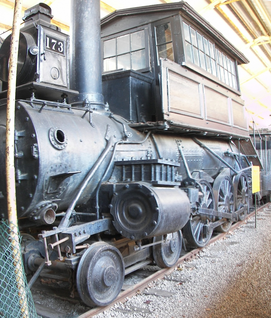 A 4-6-0 camelback locomotive built by the Baltimore & Ohio Railroad in 1873. Photographed at the Museum of Transportation in St. Louis, Missouri. This image is a composite of three photos taken in a series vertically in order to cover the whole machine in the cramped area of the shed where this locmotive is housed. The result is severe barrel distortion from the extremely short effective focal length produced by the process. The original images were resized with ImageMagick and processed with hugin to create the composite, which was cropped with GIMP, which created the final jpeg file. No other processing or modifications were done to produce this image.